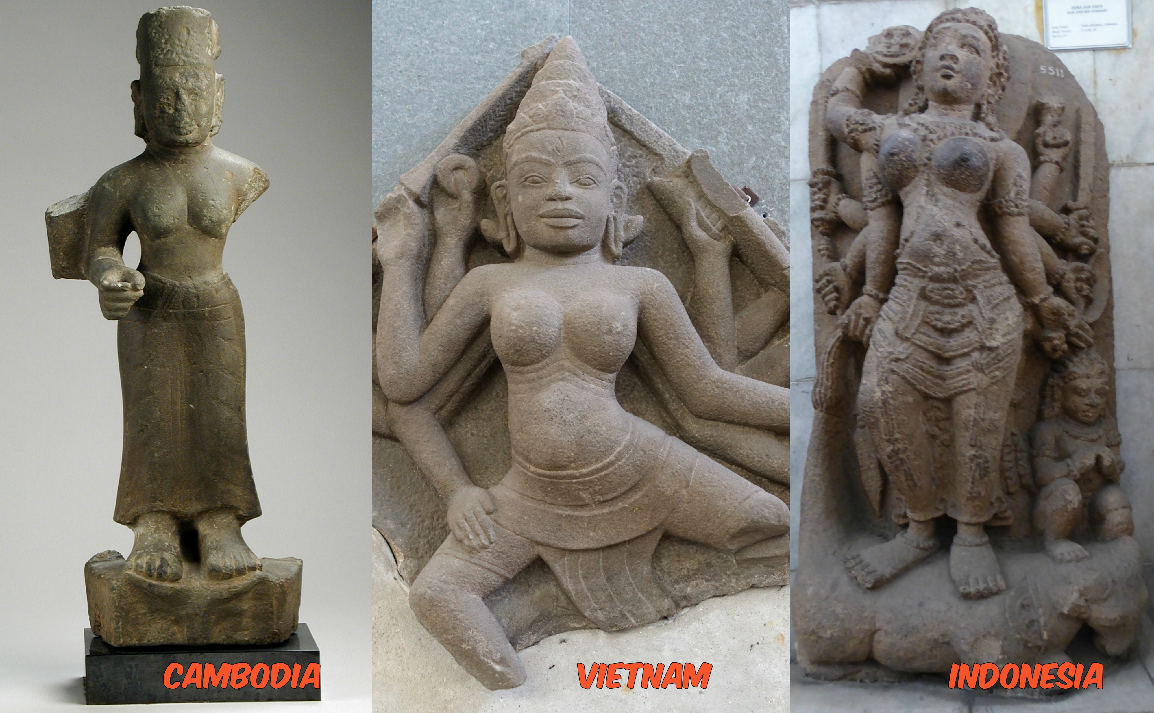 Durga sculptures found in southeast Asia. This is a derivative collage of the following wikimedia images The Hindu Goddess Durga LACMA M.83.23 (1 of 2).jpg, 7th to 8th century Durga, My Son E4, 10th-11th century, Quang Nam - Museum of Cham Sculpture - Danang, Vietnam - DSC01675.JPG, 10th to 11th century 089 Durga Mahisasuramardini, Candi Rejo, Magelang, 8-9th c (23489896995).jpg, 8th to 9th century